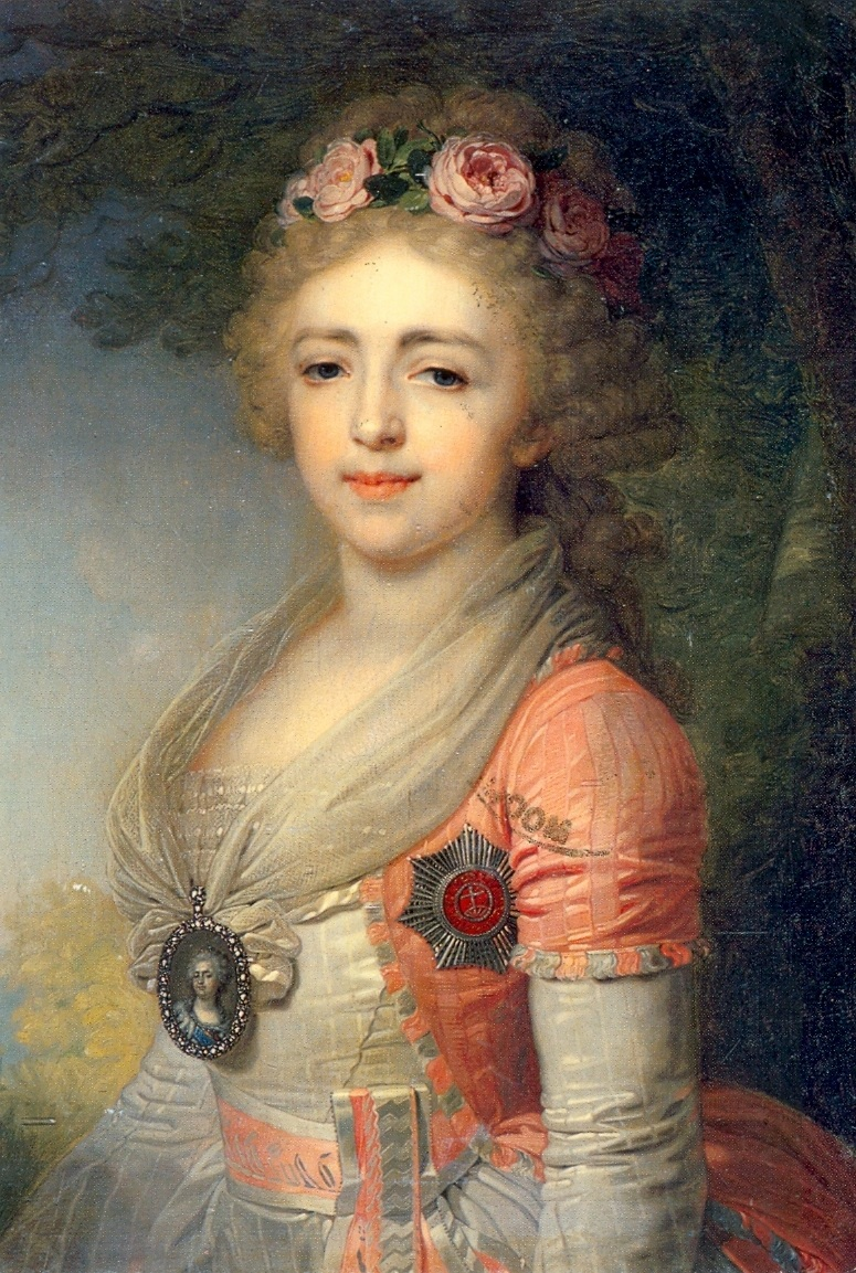 Grand Duchess Alexandra Pavlovna of Russia (1783-1801), Palatina of Hungary, daughter of tsar Paul I of Russia, wife of Archduke Joseph Anton Johann of Austria, Palatin of Hungary